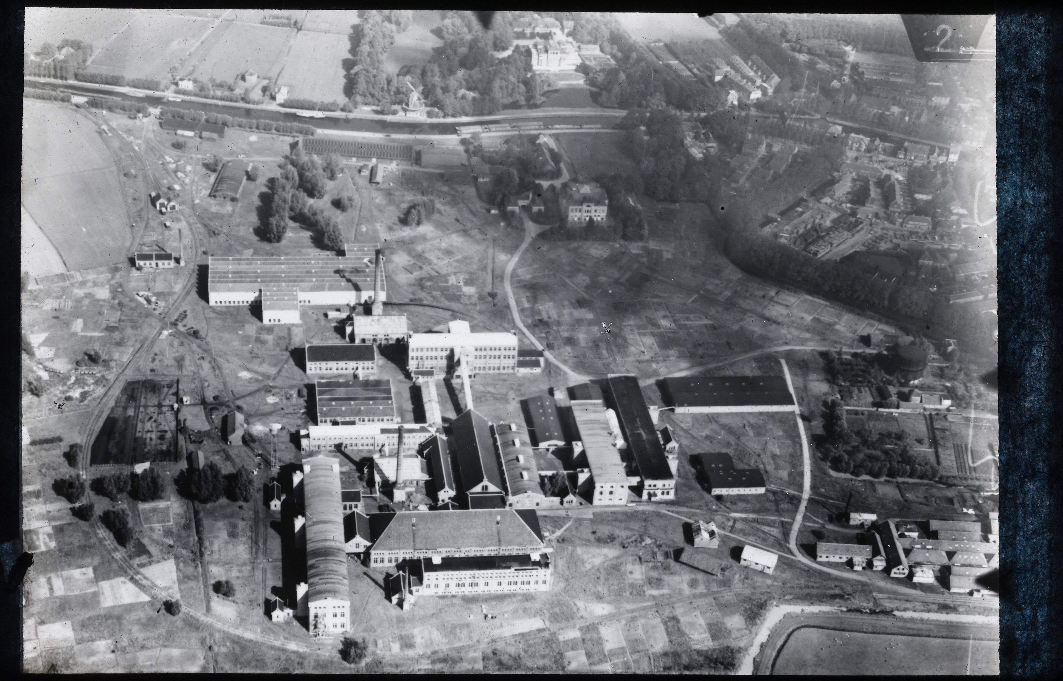 Aerial photograph of Weesp in The Netherlands.